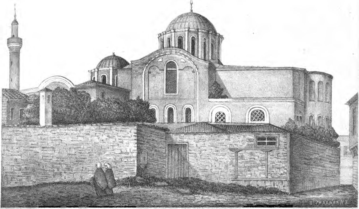 Byzantinai meletai topographikai (1877) Author: Paspatēs, Alexandros Geōrgiou, 1814-1891. [from old catalog] Subject: Inscriptions, Greek Year: 1877 Possible copyright status: NOT_IN_COPYRIGHT Language: English Digitizing sponsor: Google Book contributor: Oxford University Collection: europeanlibraries